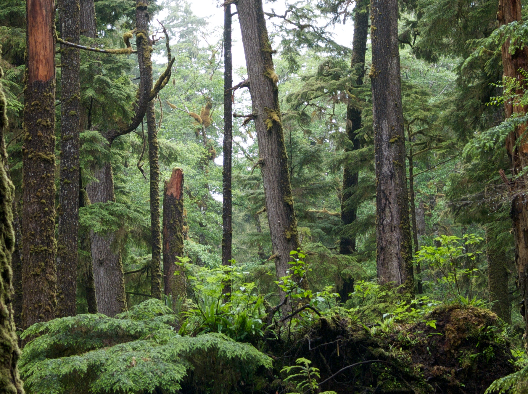 Tsuga heterophylla forest, Windy Bay, Queen Charlotte Islands, British Columbia, Canada